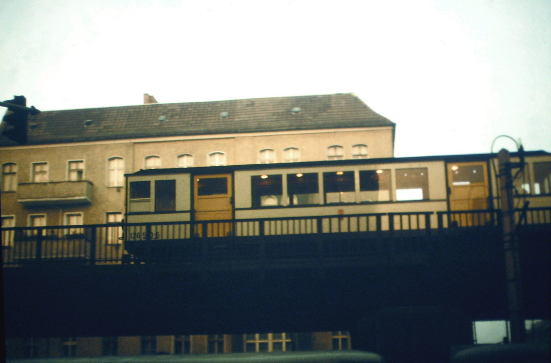 Train type A I near Schönhauser Allee